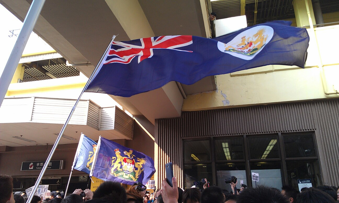 HK Flags Outside Sheung Shui Station at a protest in 2012